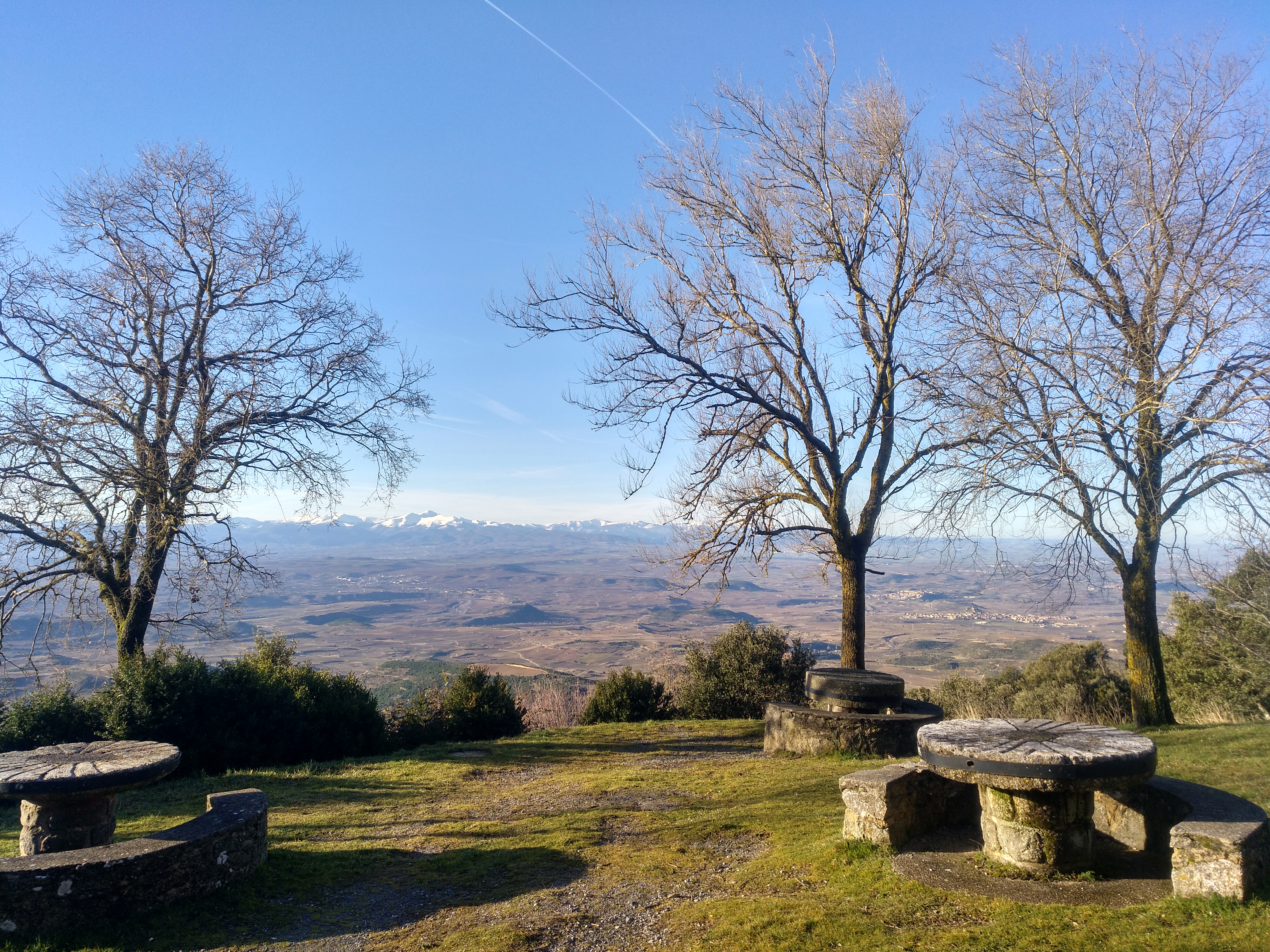 Balcon of La Rioja